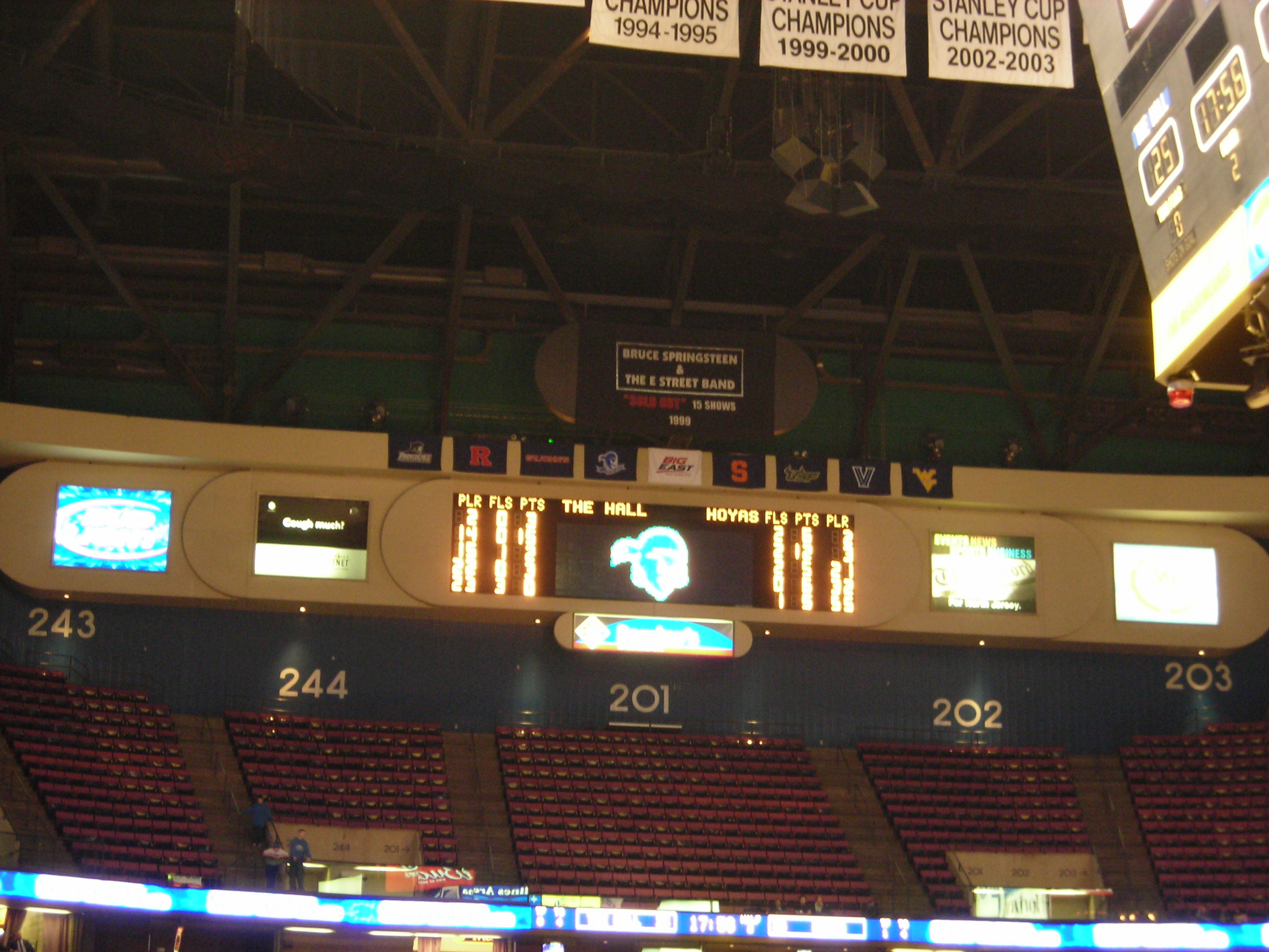 Photo taken by myself, January 19, 2007. 18:15, 20 January 2007 . . Firmtread24 . .2592 x 1944 (1,060,812 bytes)